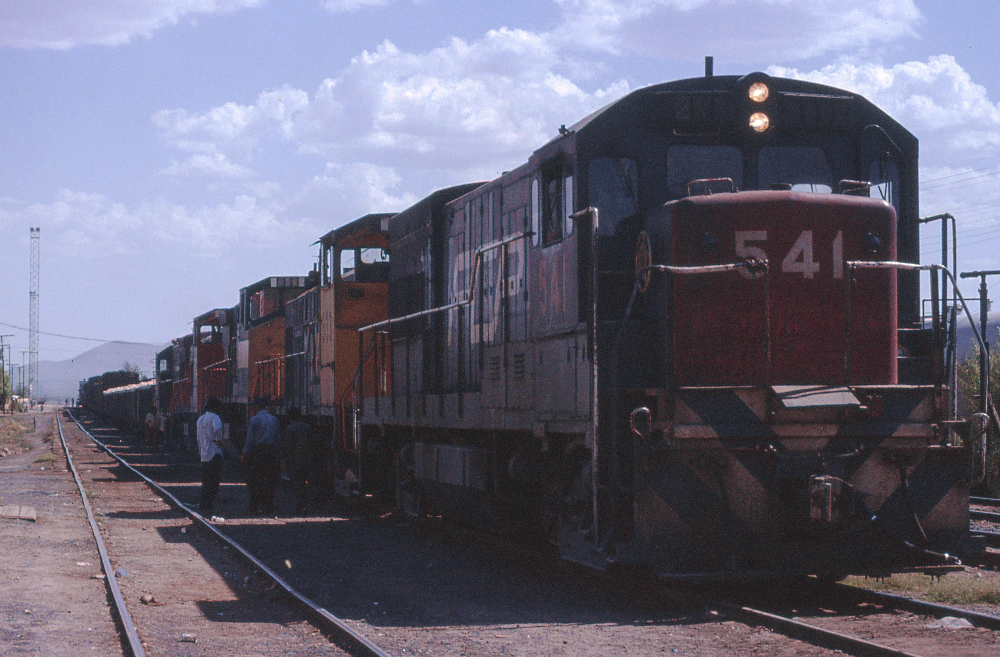 A great lash-up that could only be found in Mexico in the late 70s early 80s. A GE U-Boat, 3 MLW M420s, and another U-Boat. Power for the twice mixed that ran between Nogales and Agua Prieta Sonora.